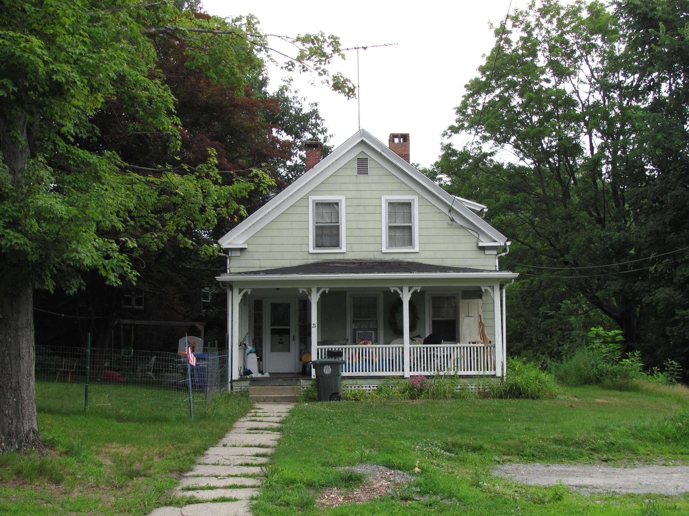 Frances H. and Jonathan Drake House, Leominster Massachusetts